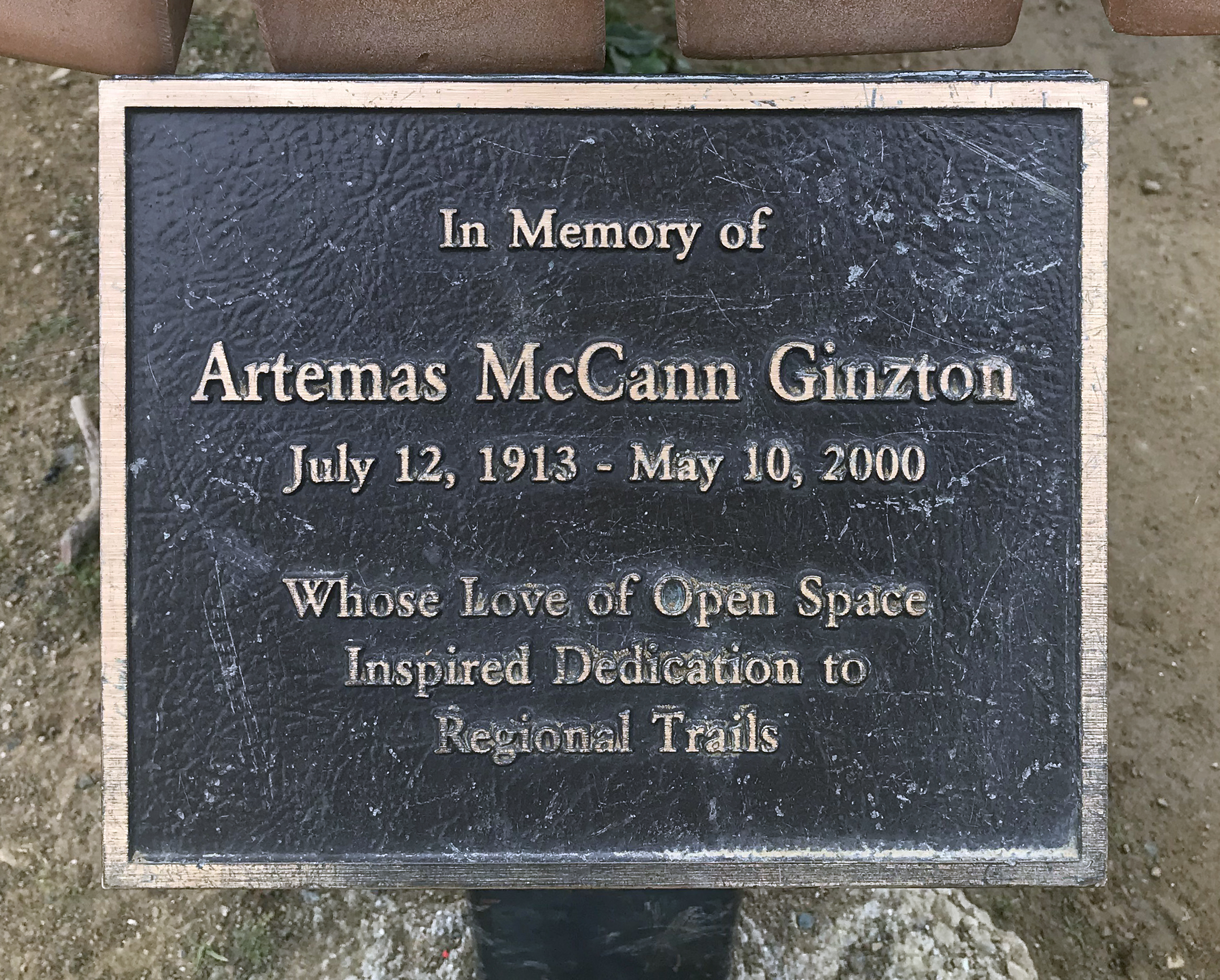 A plaque in memory of Artemas McCann Gintzon at Hunter's Point, in Fremont Older Preserve, Santa Clara County, California